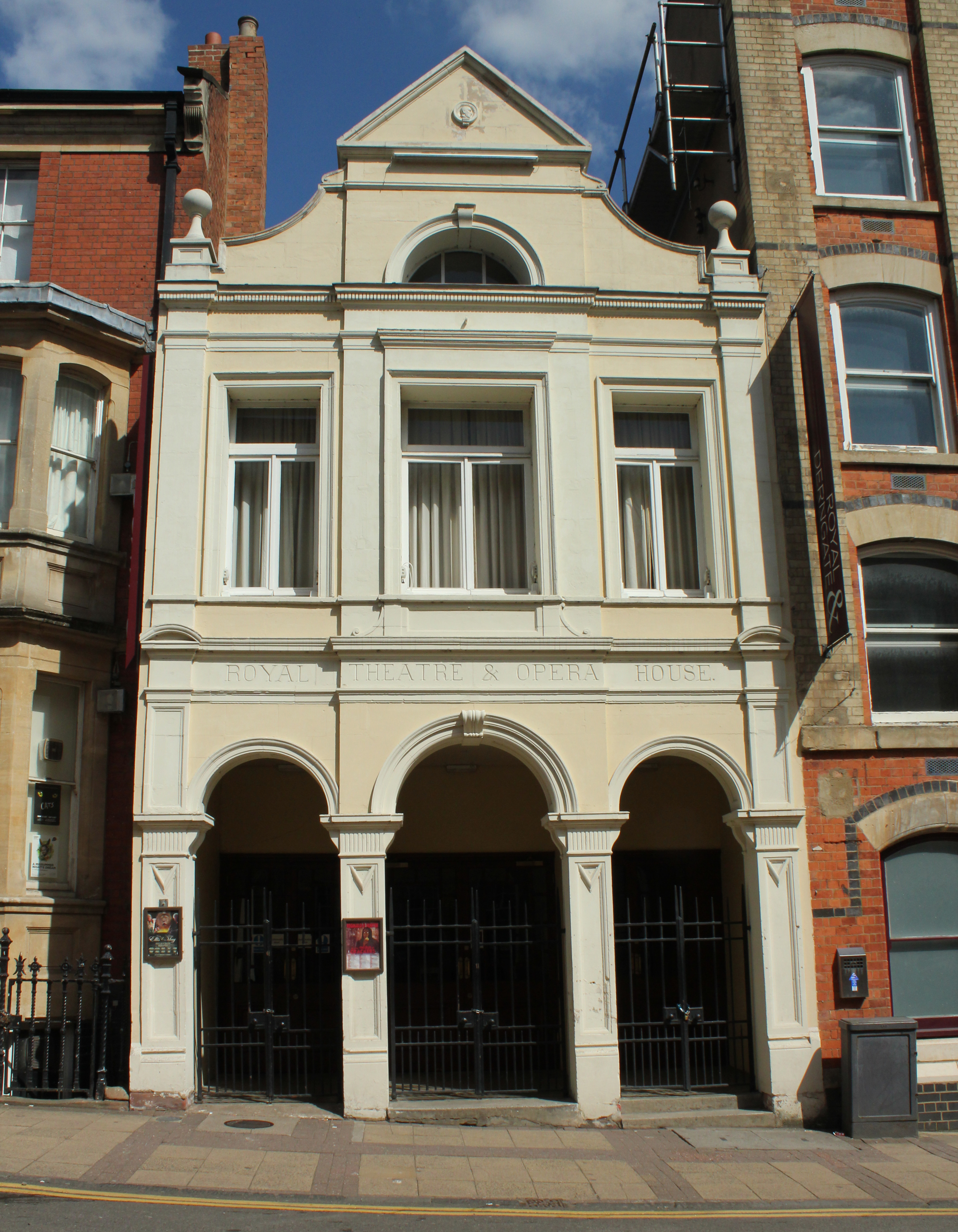 Exterior of the Royal Theatre on Guildhall Road, Northampton. The view was damaged in 2015 by the careless installation of a large tree planted and large planter box in front, rectified in 2016.